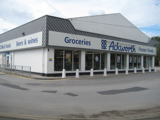 Supermarket Ackworth Moor Top Co-op. The only supermarket in the area, so, always busy.